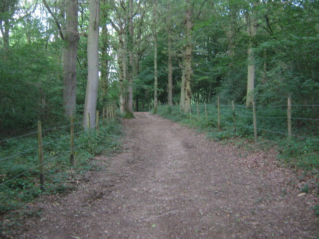 Track in Brookland Wood This track is used by a footpath from Beech Lane, Key's Green passes by Old Farm, and through Brookland Wood to the A21 Hastings Road.